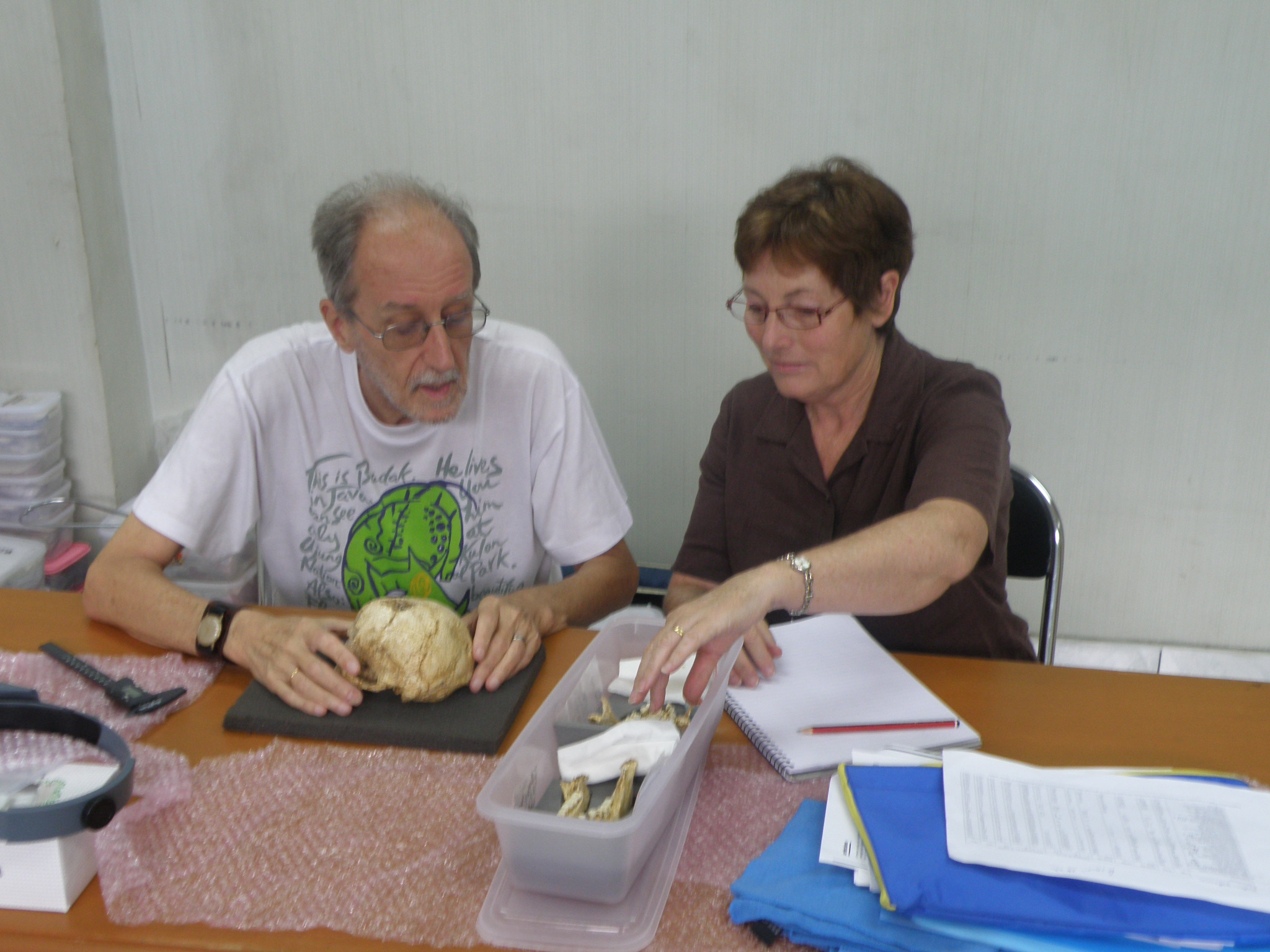 Dr. Colin Groves sitting with Dr. Debbie Argue (his former student and colleague) examining the type specimen of Homo floresiensis, taken in Jakarta